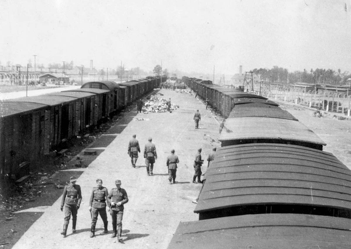 The main platform in May 1944, prior to the arrival of mass transports from Hungary